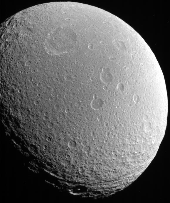 The highest resolution picture of Tethys that was ever taken up until 2004. Made by the Cassini-Huygens Mission. Taken October 28, en:2004, from 254,000 km. The central peak crater at the bottom edge is Telemachus. The large flat floored crater at upper center is Penelope. The deep Ithaca Chasma can be seen at the bottom of the image. It is a crop of one of the images in a series of Tethys taken that day. Raw cassini image N00023687.jpg trough N00023703.jpg